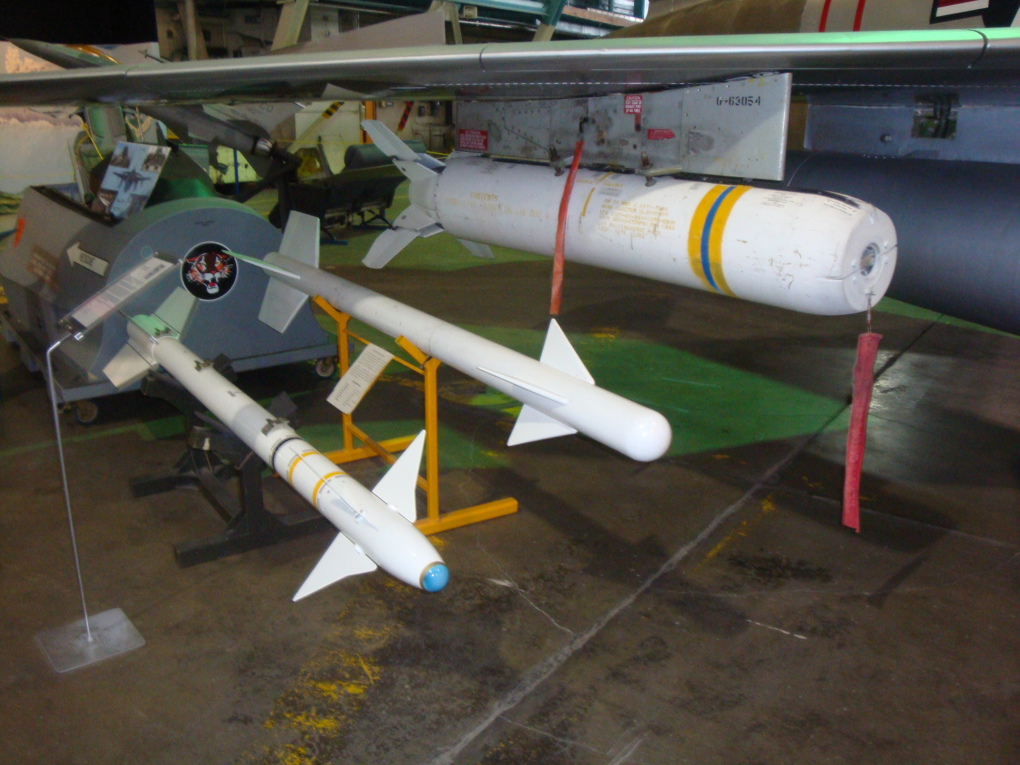 Weapons at the Wings Over the Rockies Air and Space Museum